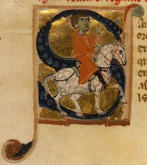 Manuscript image of Raimbaut de Vaqueiras, BNF Richelieu Manuscrits Français 854, Bibliothèque Nationale Française, Paris. (Free use from